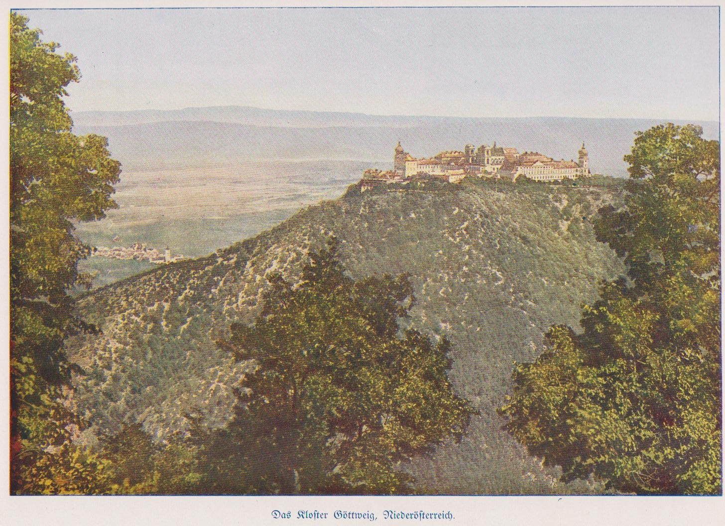 "Österreichs Hort" ("Austria's Stronghold") has been a jubilee compendium highlighting historic moments, monuments and persons of Imperial Austria's history, published on the occasion of Emperor Franz Joseph I. reigning